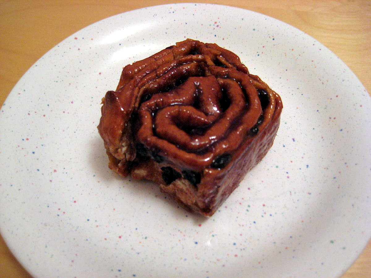 A lovely sticky Chelsea Bun from Fitzbillies of Trumpington Street.